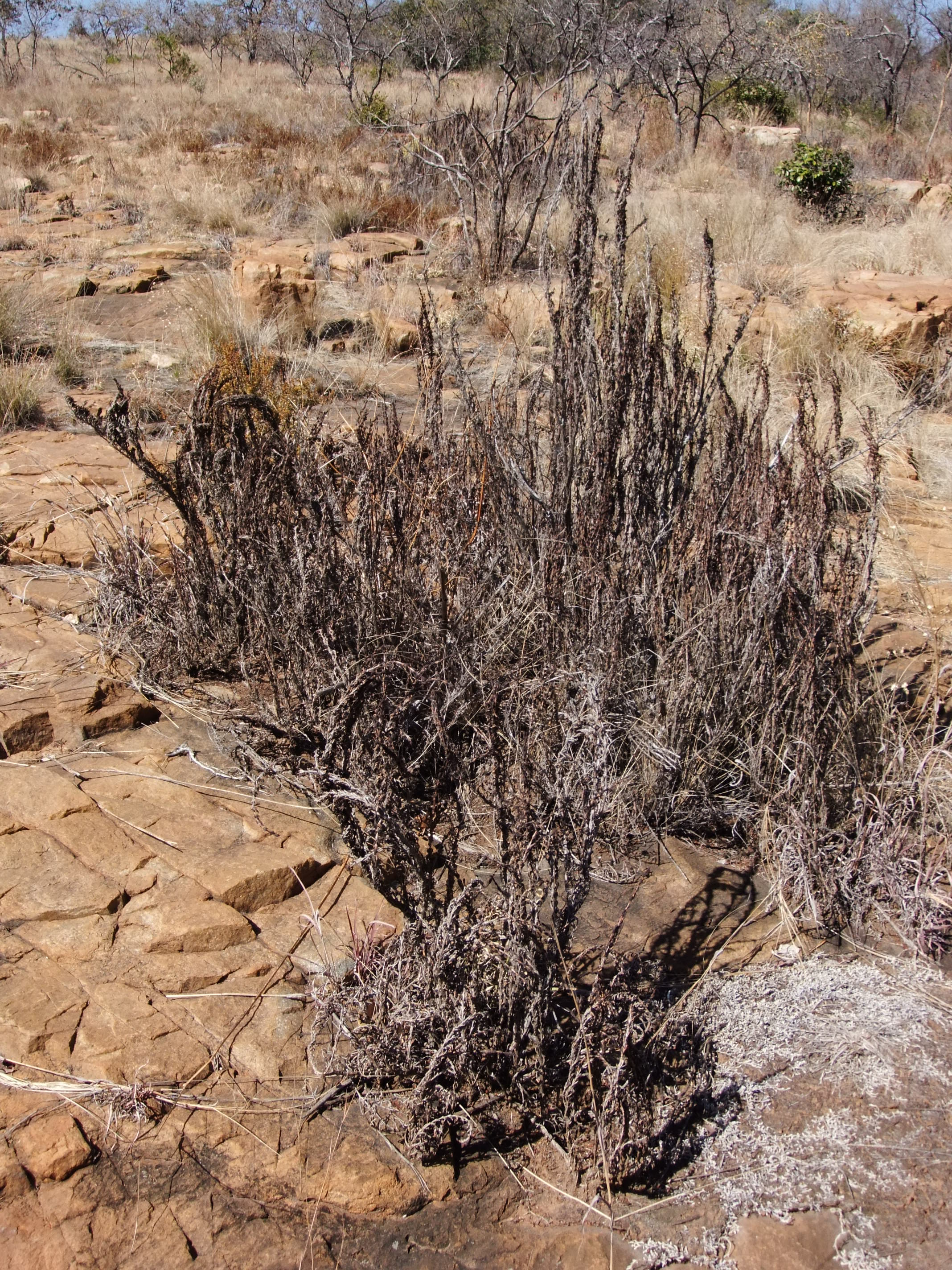 Myrothamnus flabellifolius, Mountain Sanctuary Park, Magaliesberg, South Africa